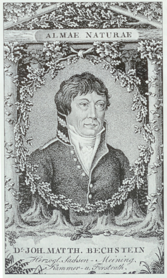 Johann Matthäus Bechstein, (1757-1822), German forestry scientist and ornithologist.